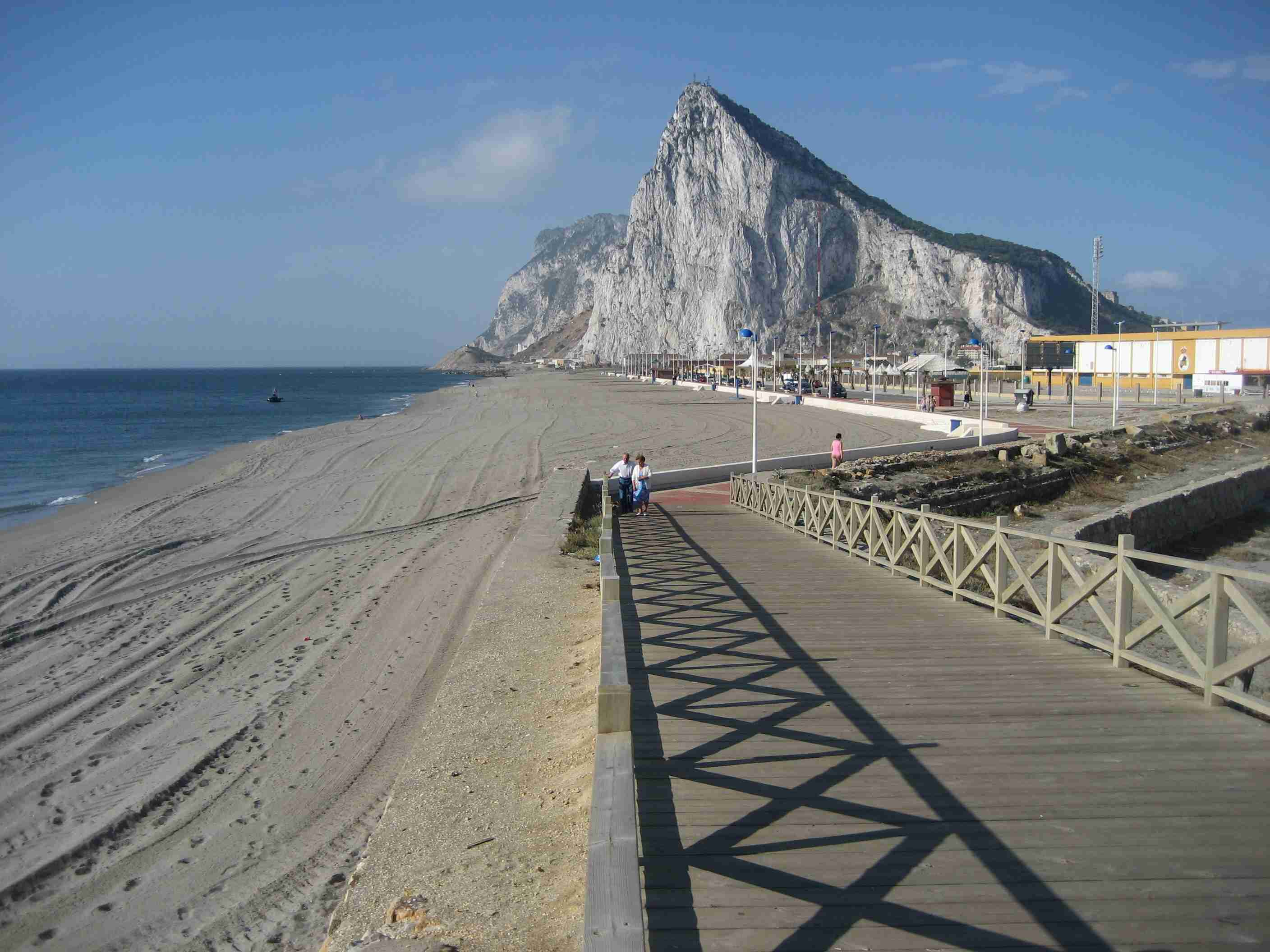 The Rock of Gibraltar as seen from La Linea de la Concepcion just across the border in Spain.